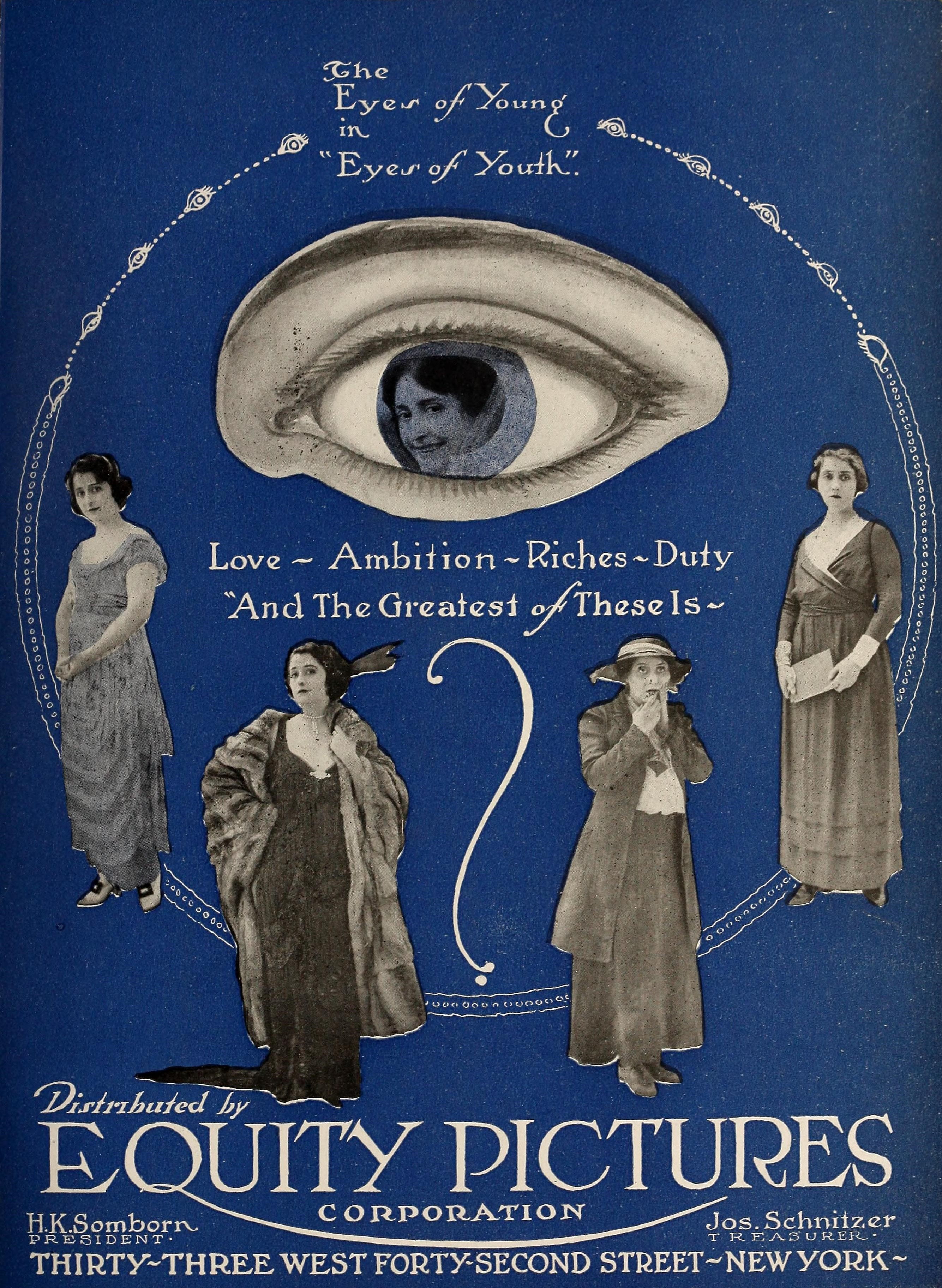 Ad for the American film Eyes of Youth (1919) with Clara Kimball Young, page 1555 of the August 23, 1919 Motion Picture News. The prior page in the publication had a cutout so the "eye" image would show through.